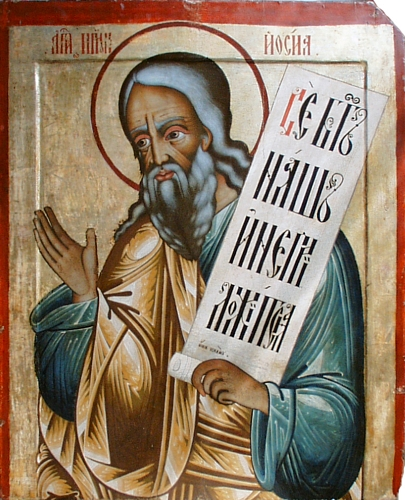 Hosea the prophet, Russian icon from first quarter of 18th cen.